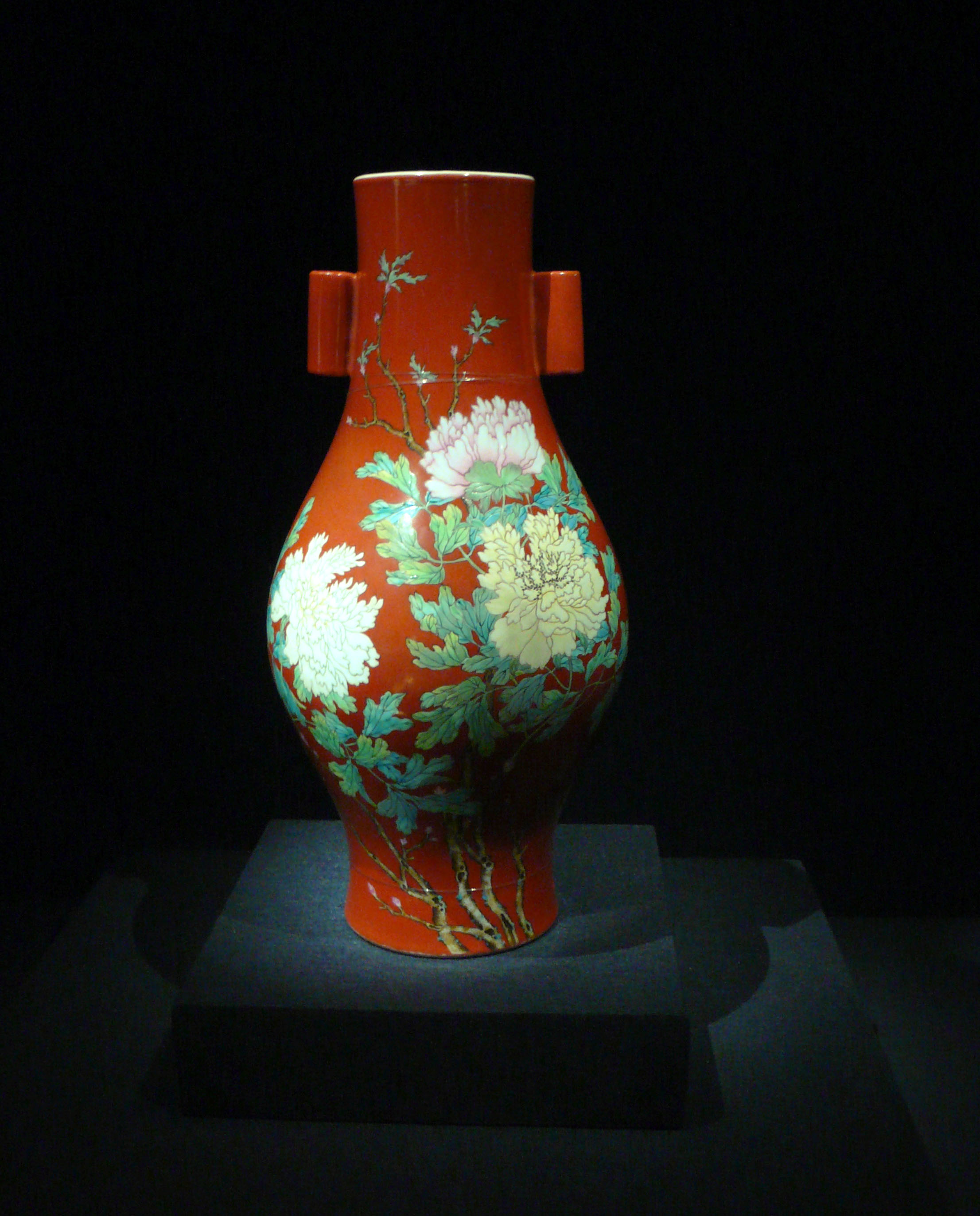 A red ceramic vase with flower design, Palace Museum, Beijing.